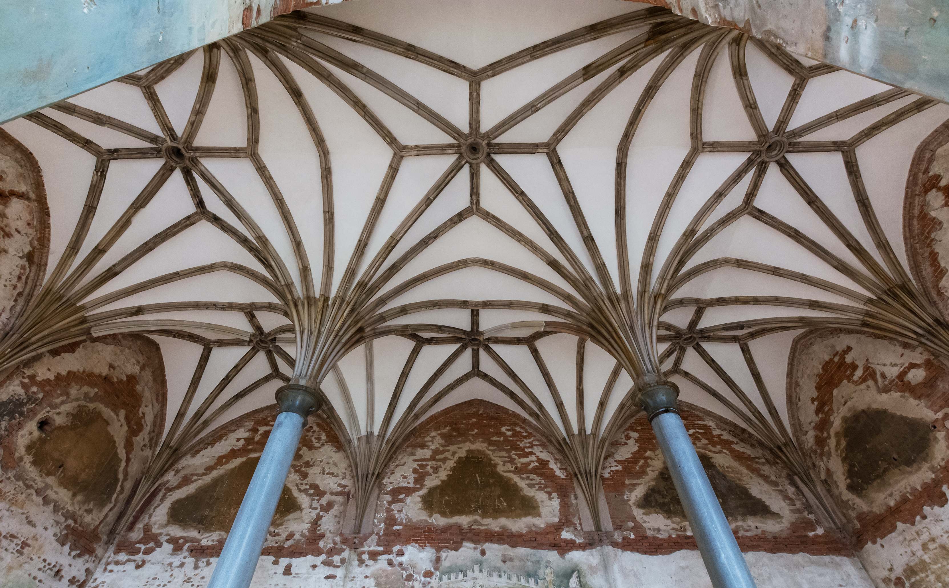 Kamieniec Ząbkowicki Castle